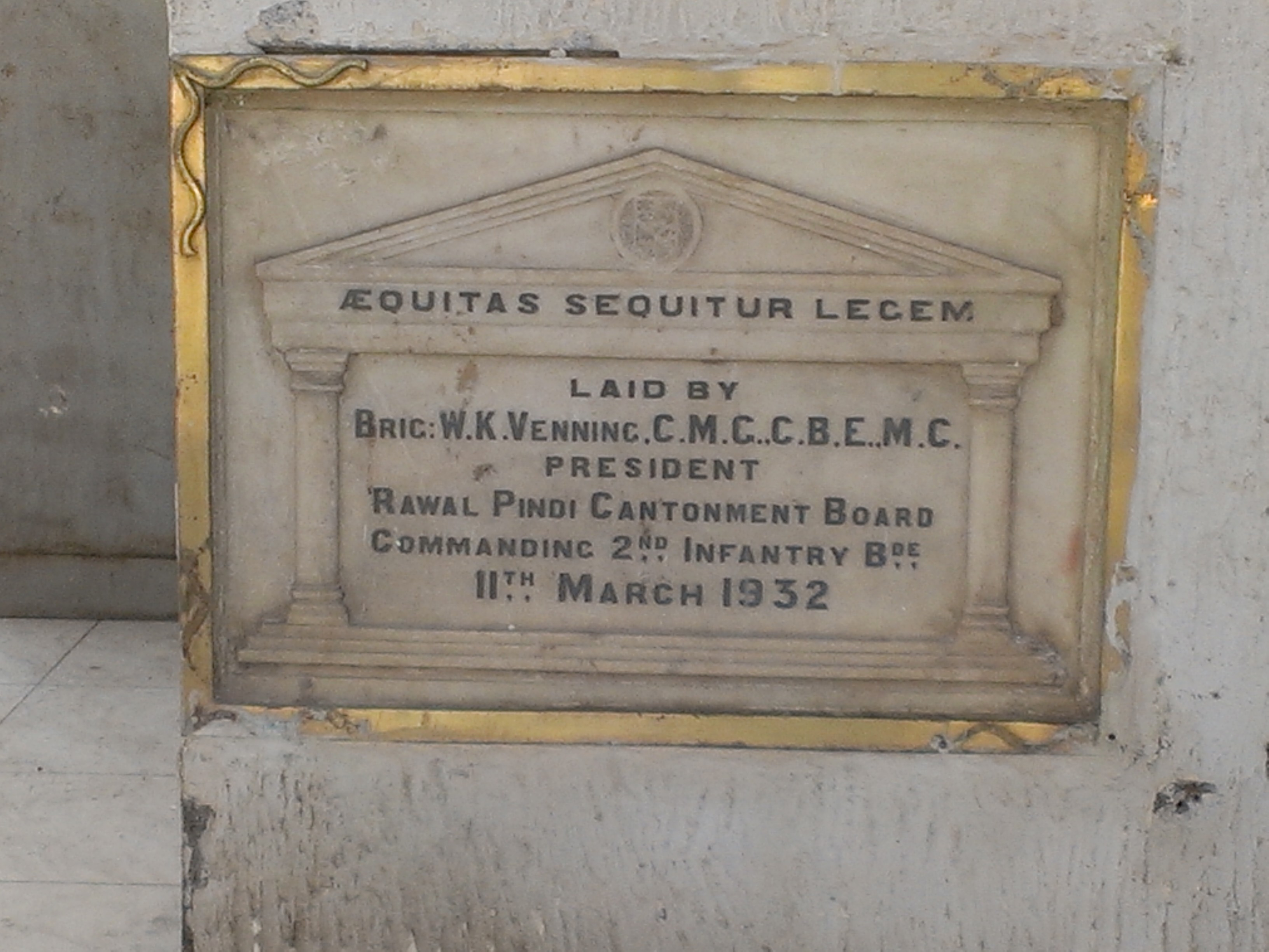 This is a photograph of the cornerstone of the Cantonment Public Library, Rawalpindi, Pakistan